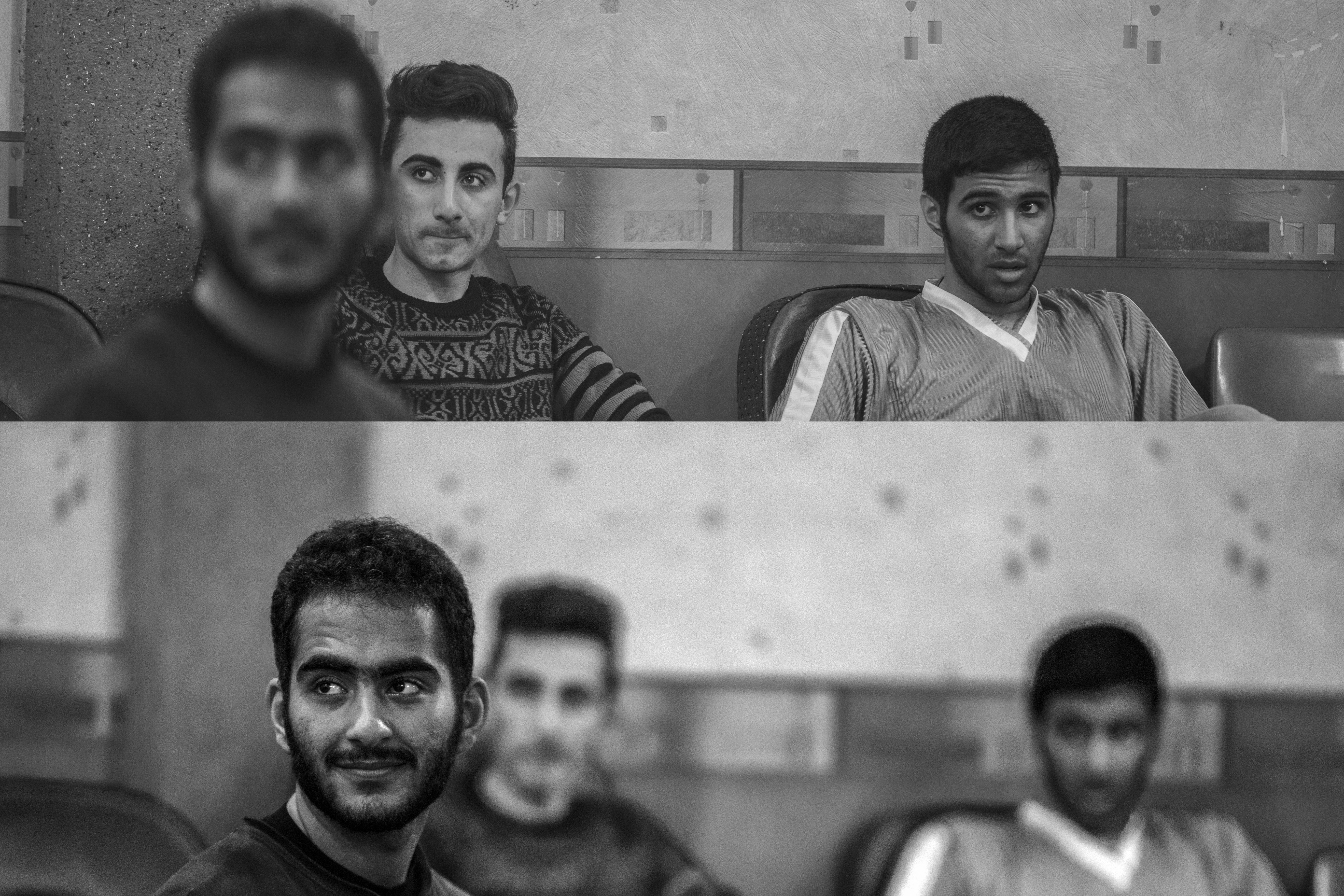 This performance is a work of Garage Theater Company in affiliation with First Session team. It was created through three months of practice and research and training. Bak Performance Minus Four is about sleep and illusion and dream; some youngsters who live in Qom talk about sleep and illusion and dream. Bak is an independent artistic event that reviews the work of independent artists and artistic groups with different artistic and ideological approaches and orientations. It is led by Garage Theater Company’s research and production center and in affiliation with First Session team. Bak is a reenactment of an incident, phenomenon, or a memory. The name “Bak” refers to the fuel tank, the container for flammable fuels. It also brings to mind audacity and fear. These events pursue two basic purposes: First, a memory is investigated in its reenactment, and second, the audience gets familiar with the barriers and hardships and incidents in other people’s lives. Garage research team, consulting with “Eugenio Barba” the founder and director of Odin Teatret, publishes each Bak program in the form of a set of research media called “Bak File”. These data include pictures, videos, and texts. Bak is an event revolving around behavior, daily life, and theater anthropology. Director : Ali Masoudi. Performer : Elham Imani, Parsa Khademi, Zahra Khalaj, Mohammad Semnani, Hosein Sadeghi, Mehrdad Salehi, Farzaneh Abdi, Hosein Alemi, Ahmad Taba, Zohreh Kamali, Mahsa Lotfi, Hamid Mohseni, Majid Mohseni, Abdoreza Mallak, Abbas Nosratinia, Hesam Nazari